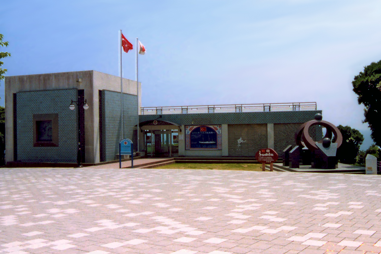 Turkish Memorial and Museum, Kushimoto, Wakayama prefecture, Japan